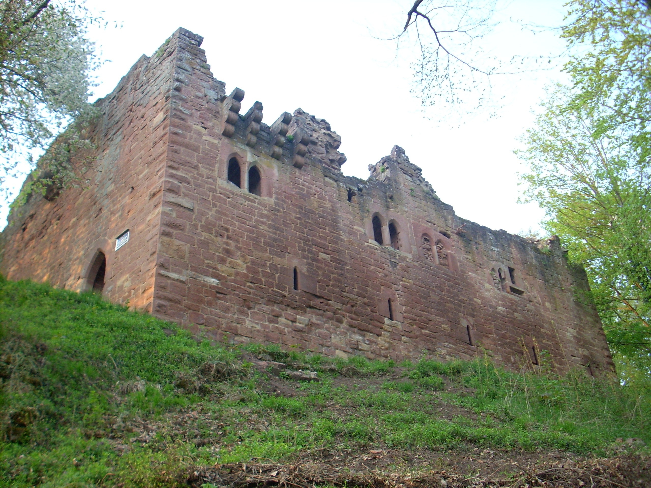 New-Windstein castle (Alsace - France)